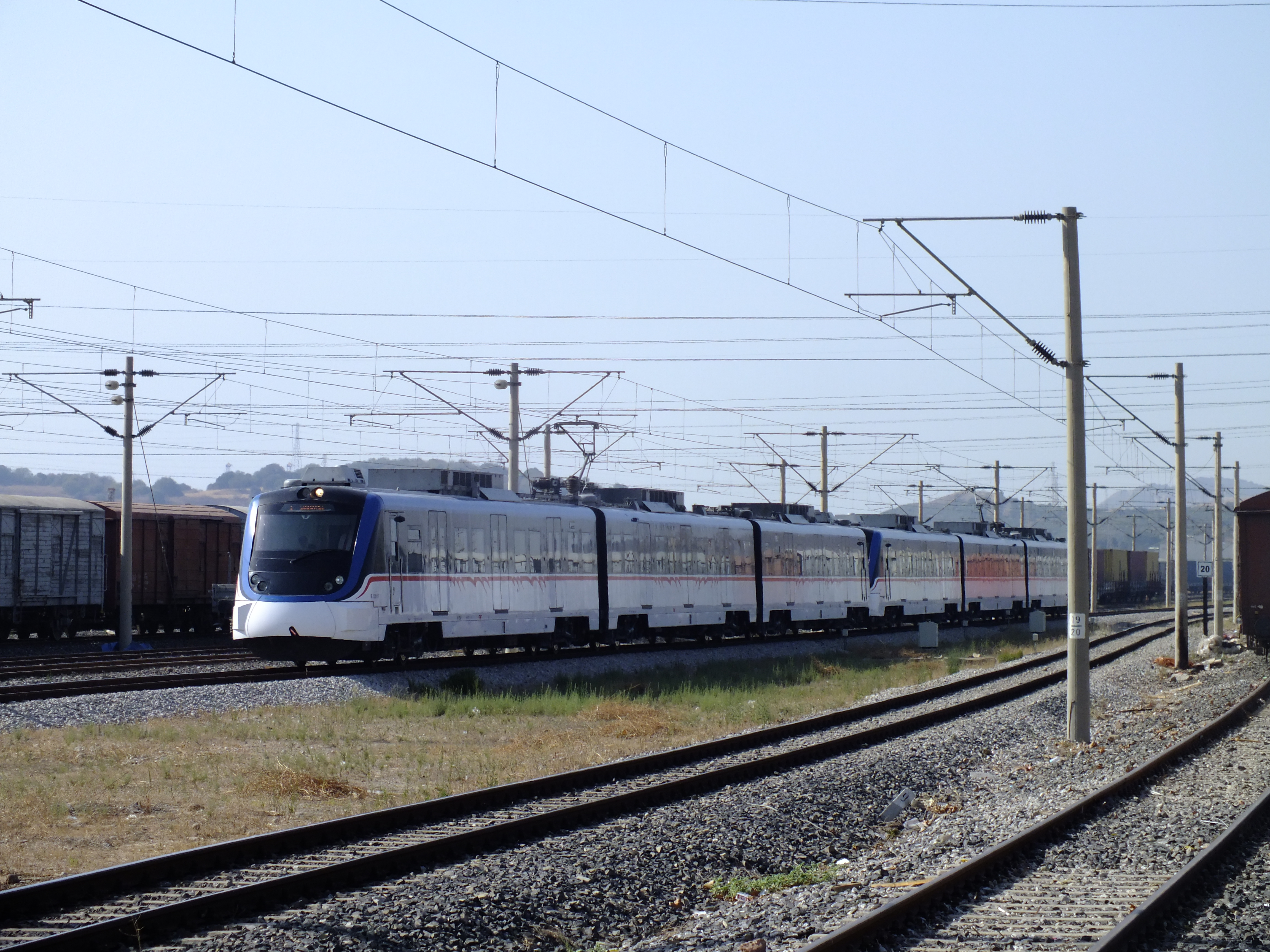 A southbound IZBAN train arriving at Bicerova station.